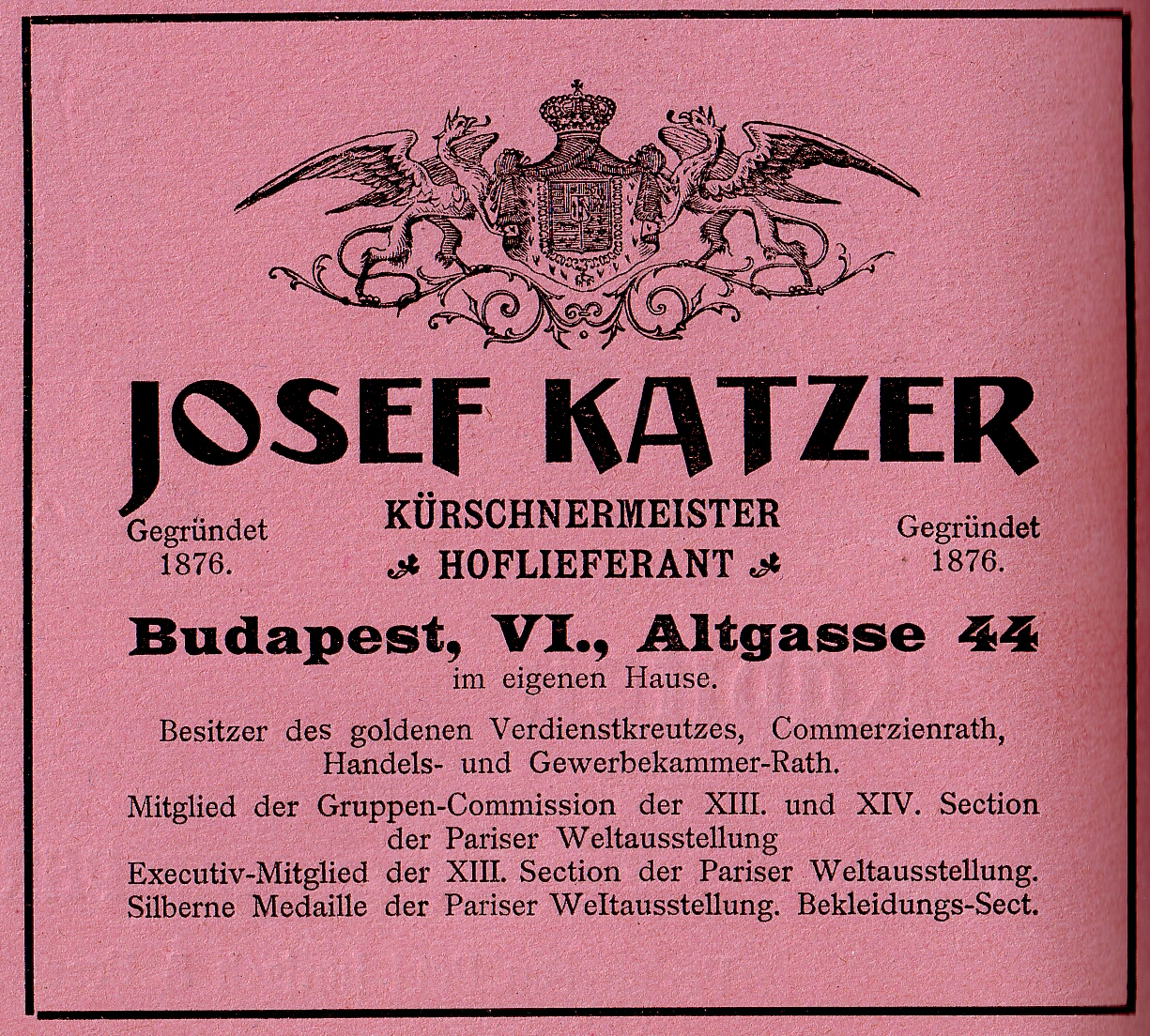 Advertisement of the furrier Josef_Katzer in Budapest (1902)